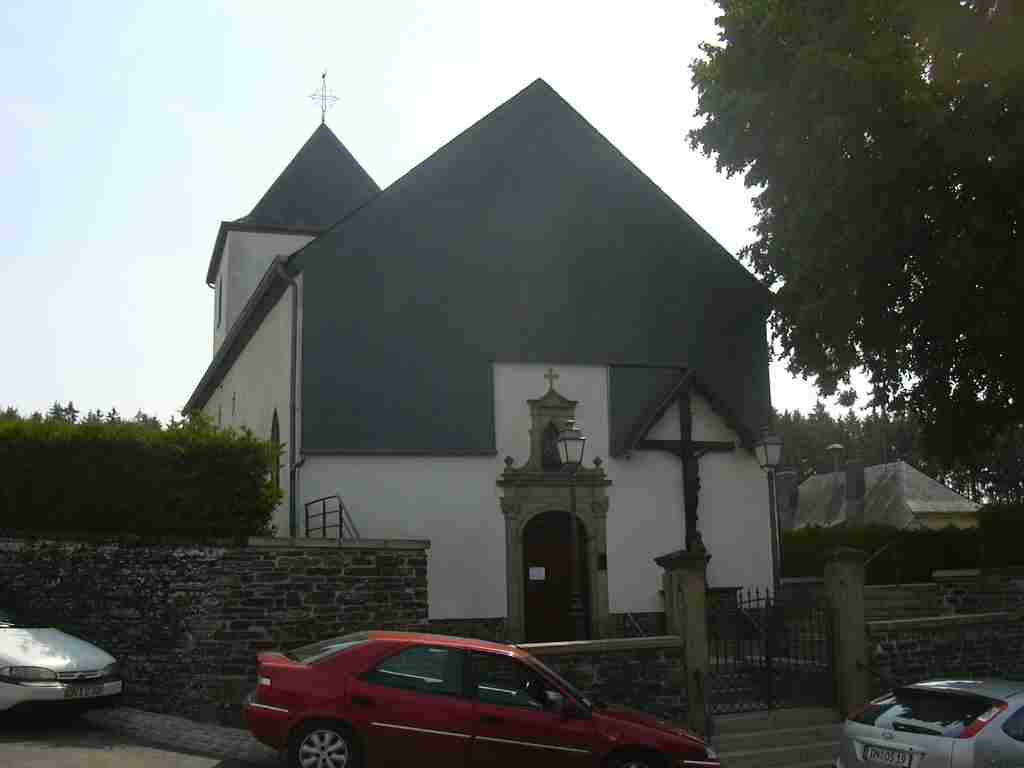 Holler in Luxemburg, Kirche own work papa1234 2006-07-22